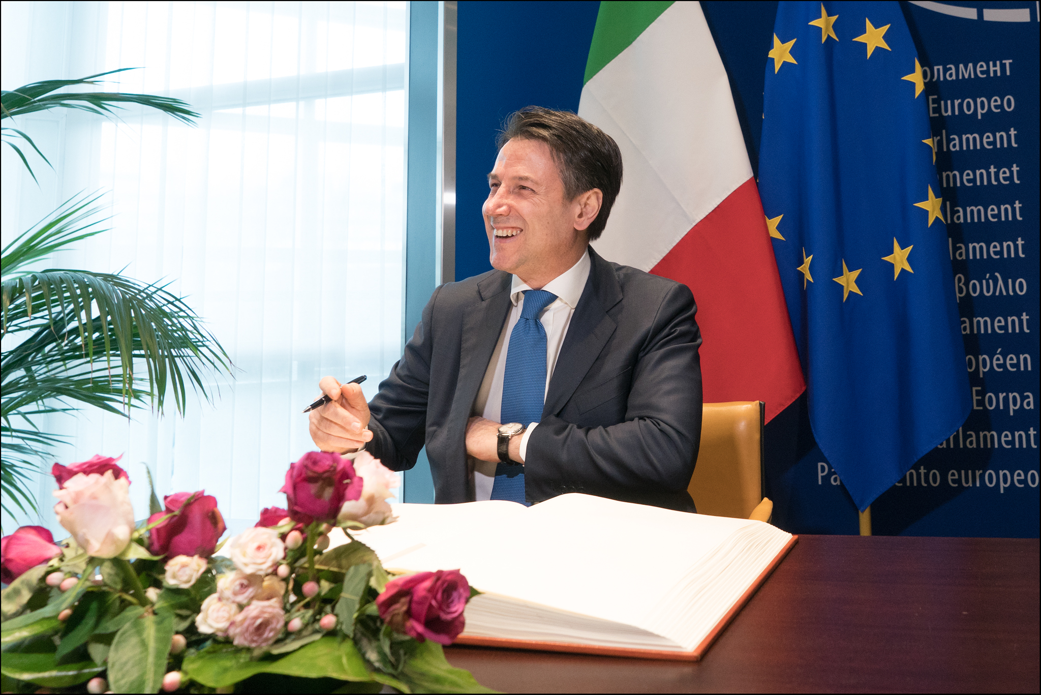 🇮🇹 Prime Minister Giuseppe Conte just arrived at the European Parliament to present his vision on the #FutureofEurope and debate with members, EP Presdient Tajani, Council and Commission! Watch it here from 17:00 CET This photo is free to use under Creative Commons license CC-BY-4.0 and must be credited: "CC-BY-4.0: © European Union 20XY – Source: EP". No model release form if applicable. For bigger HR files please contact: webcom-flickr(AT)